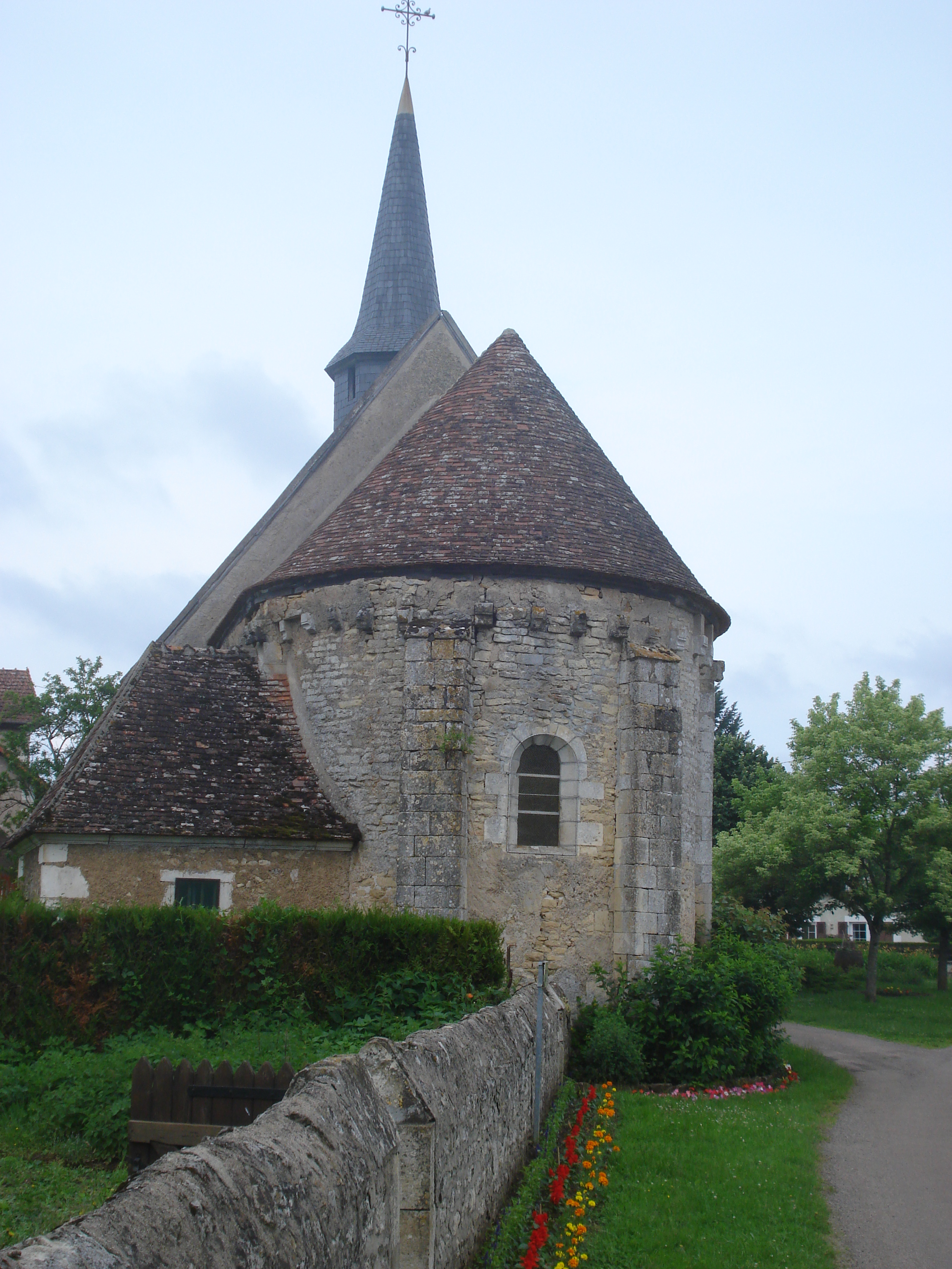 Murlin (Nièvre, Fr) St. Martins's church.